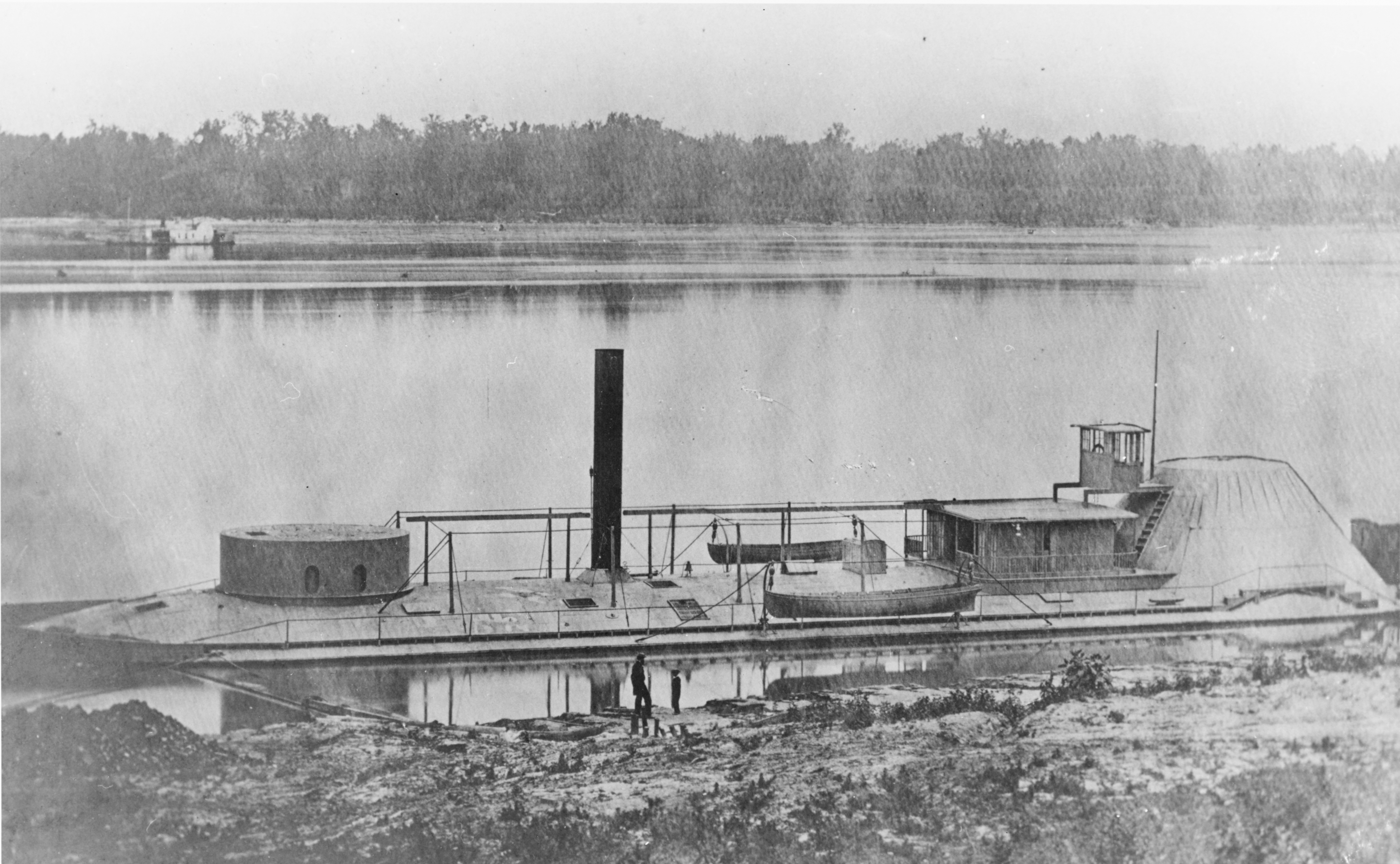 Photographed on the Western Rivers during 1863-65. U.S. Naval History and Heritage Command Photograph.